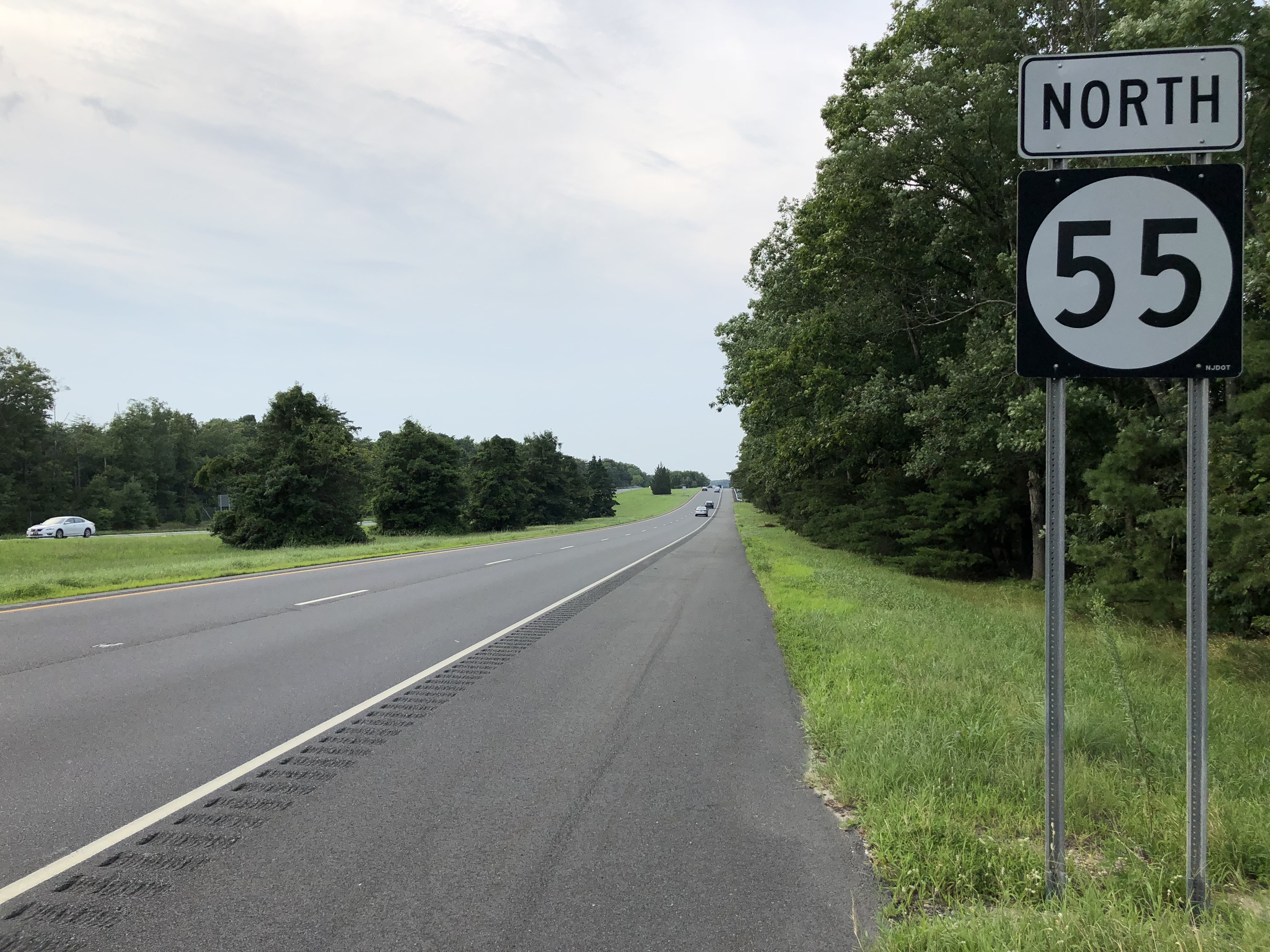 View north along New Jersey State Route 55 (Cape May Expressway) just north of Exit 24 in Millville, Cumberland County, New Jersey